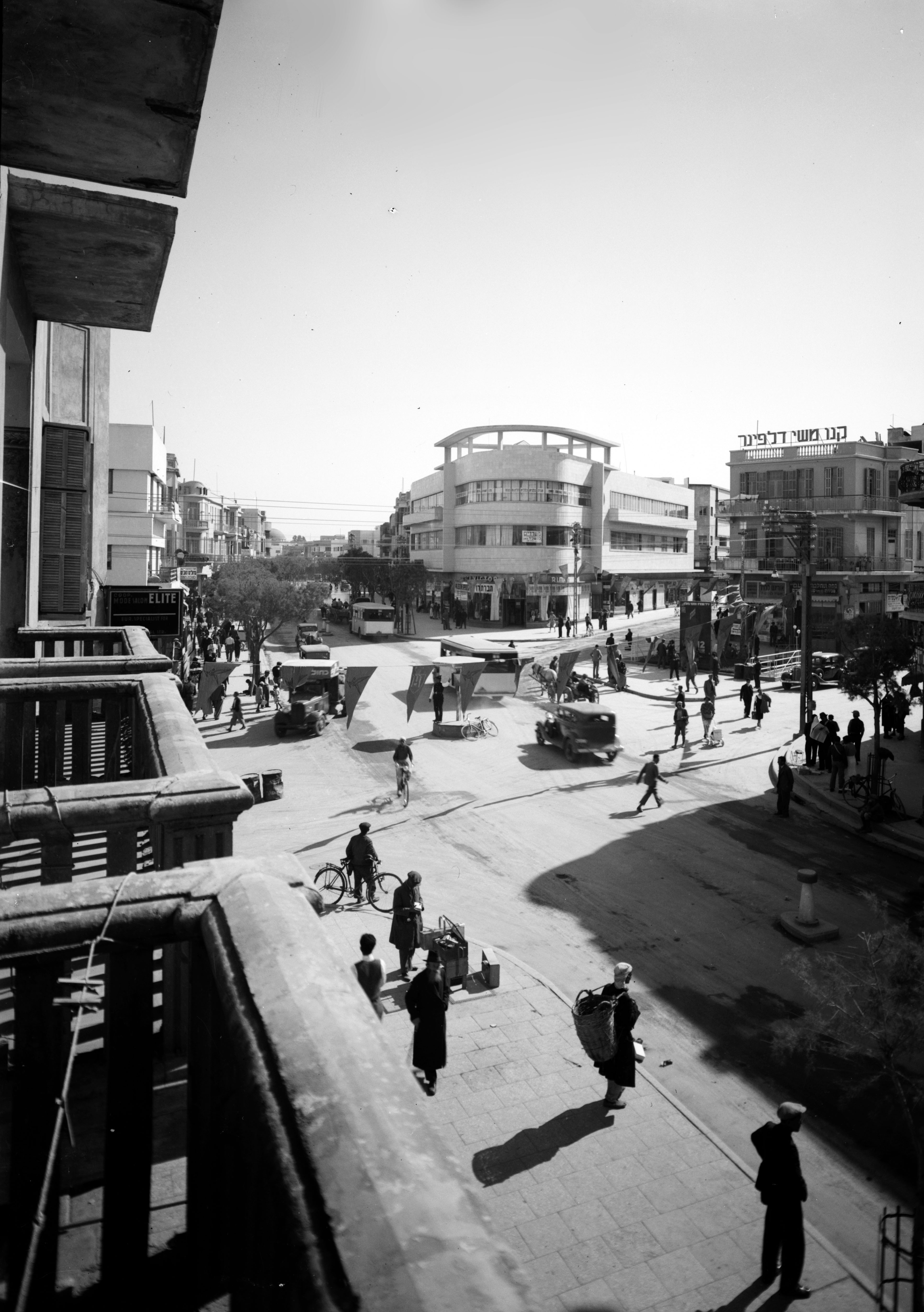 Allenby street in 1936, Tel Aviv